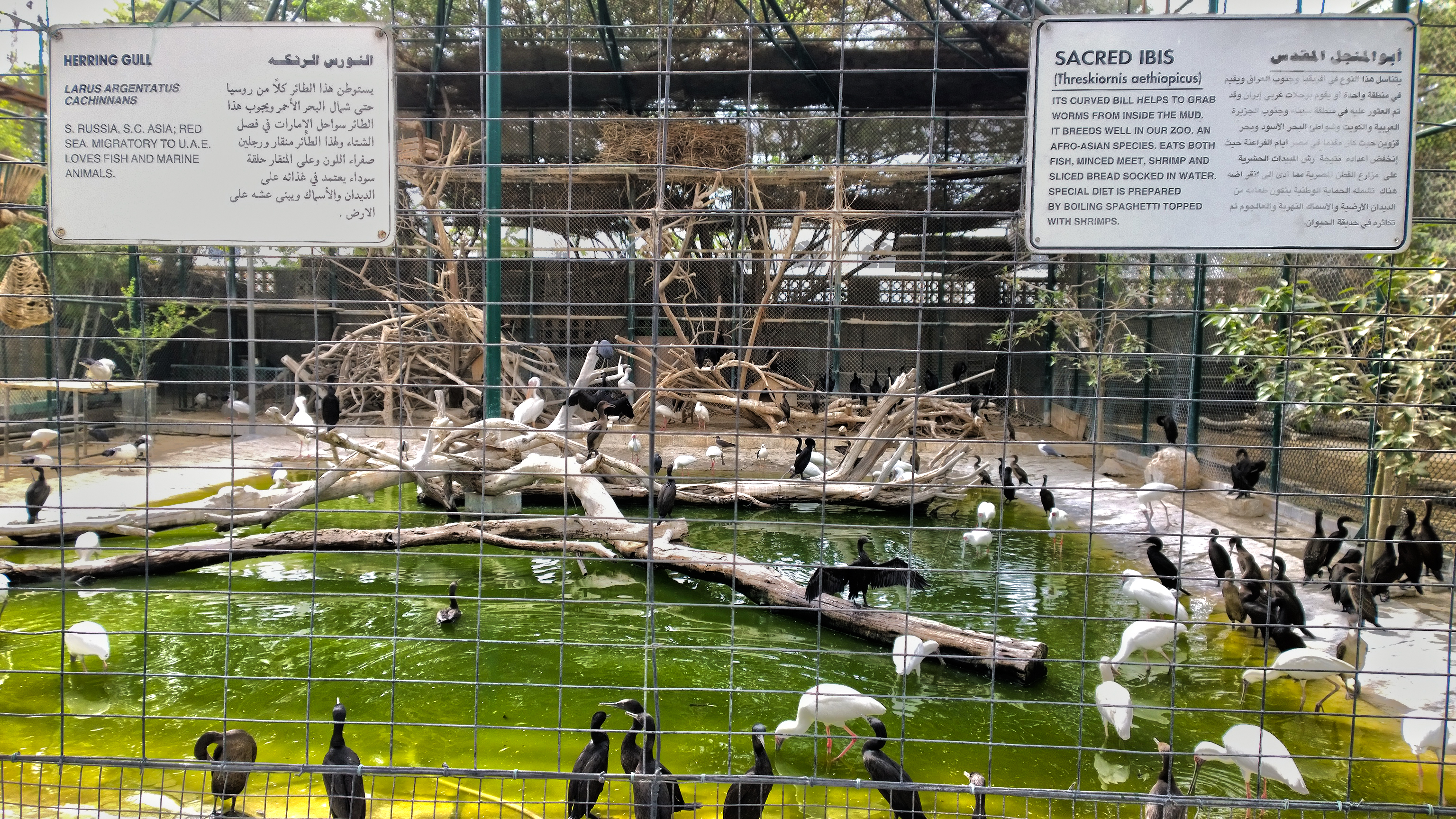 Mixed birds at Dubai Zoo. Note: neither of the two species on the zoo labels is visible in the photo!